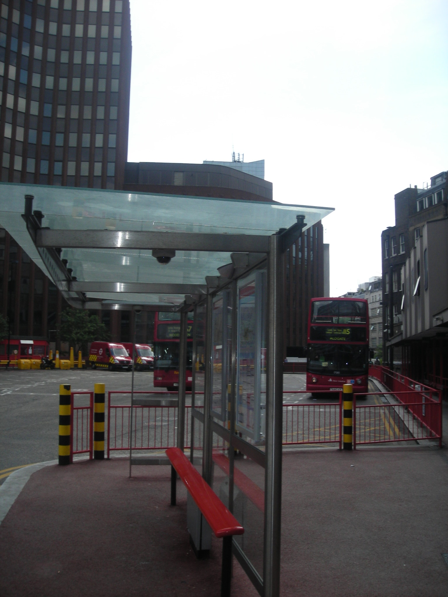 Aldgate Bus Station - May 2009